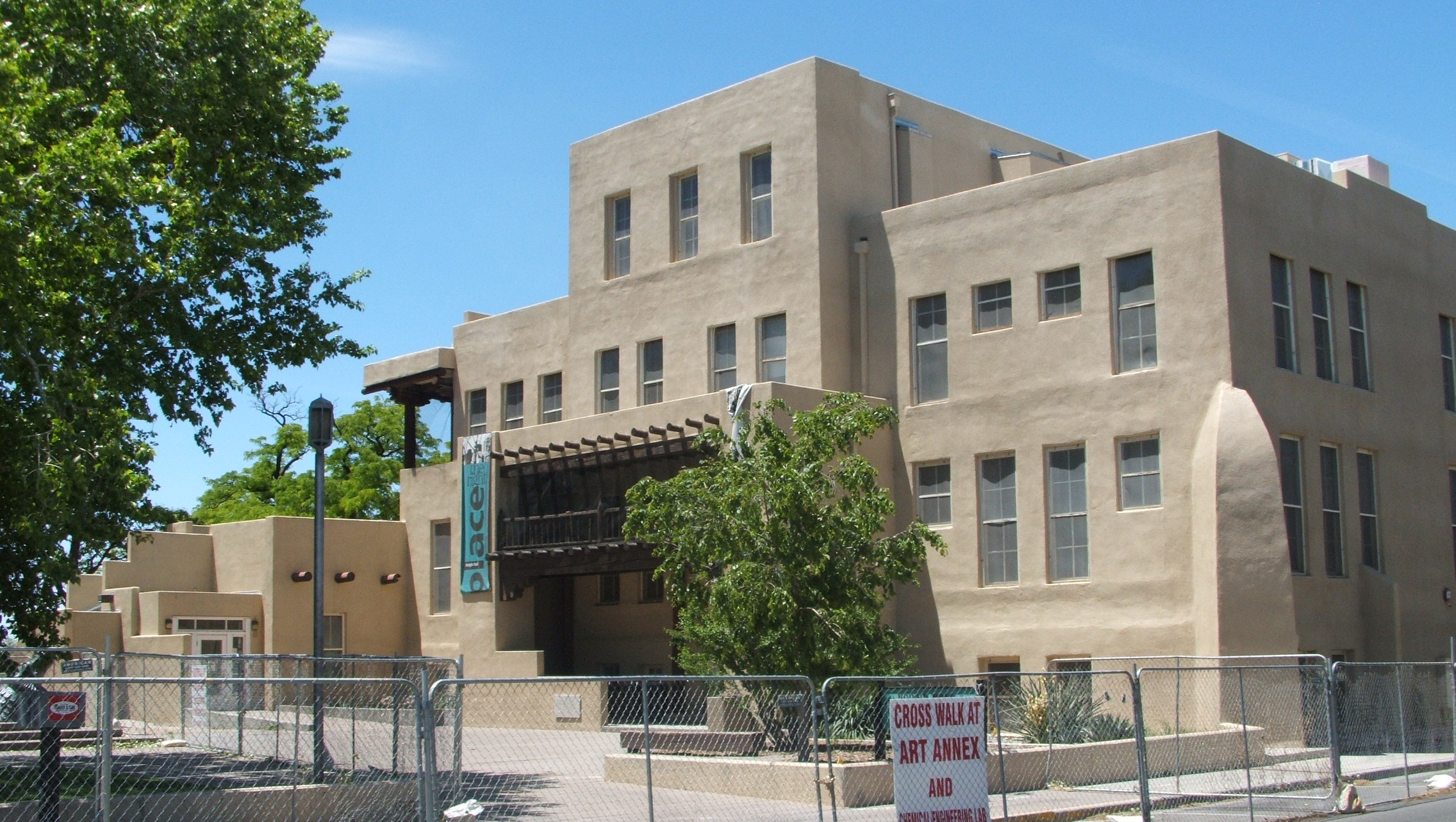 Hodgin Hall at UNM.